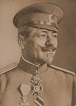 General Ivan Kolev - infantry division commander (Bulgaria) during the WW I.